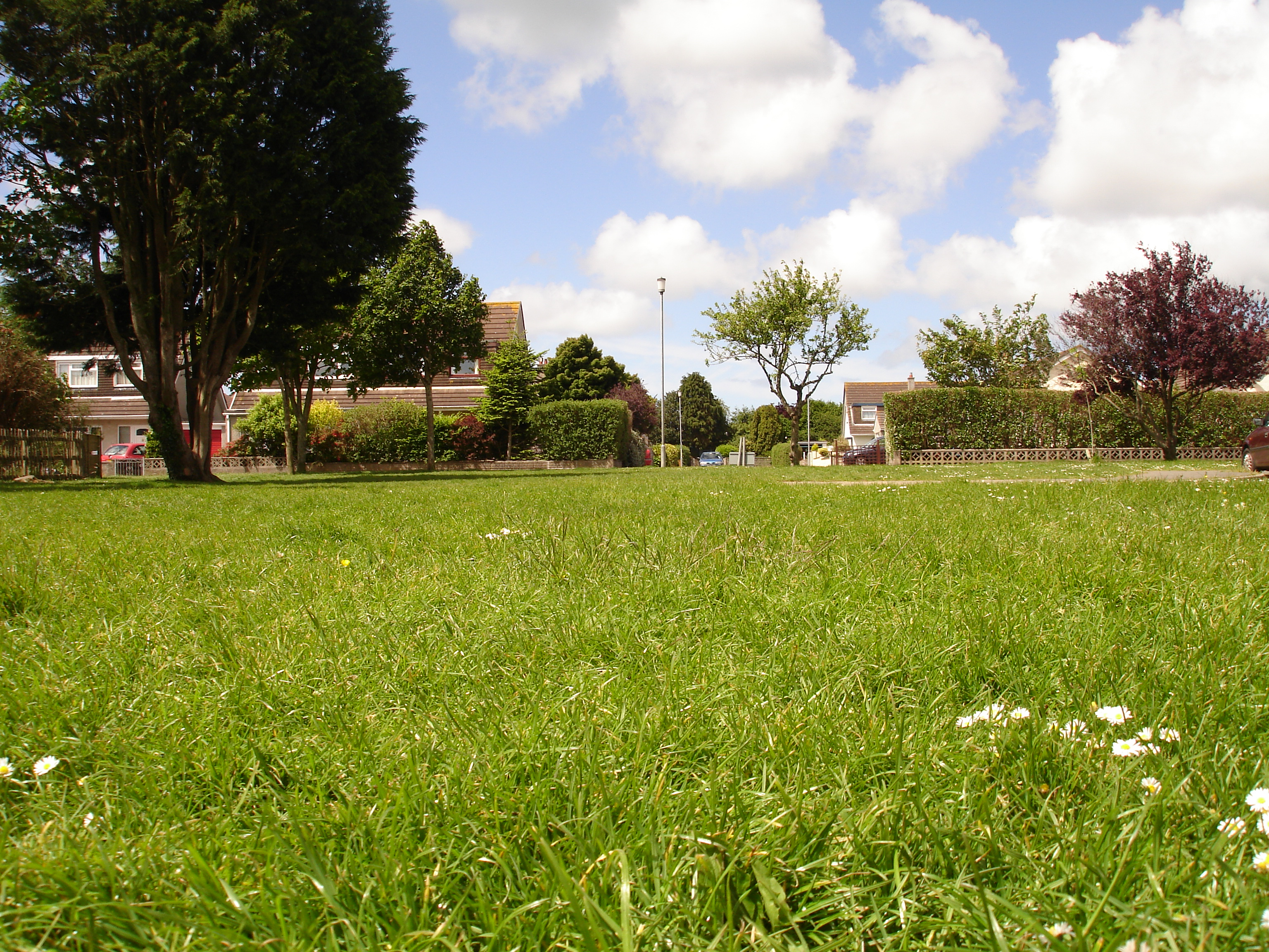 An area of land in the center of southern threemilestone, in which children play football, bulldog, 40-40 and many other games. Nicknamed the Green by local residents. The green is also well known by local people for Football Matches and Cricket Matches too.